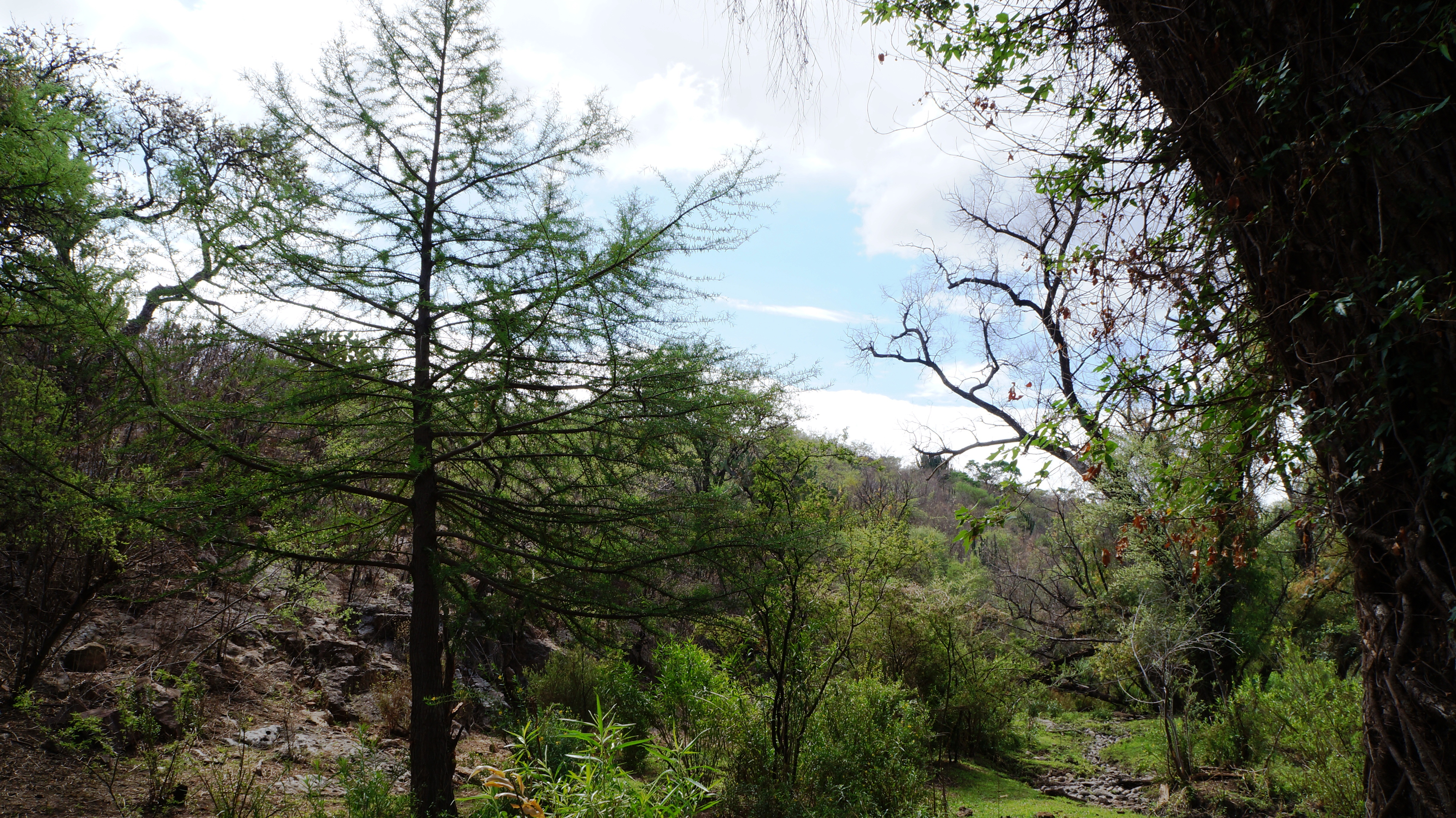 Taxodium mucronatum, an uncommon tree in this zone of Jalisco state, Mexico